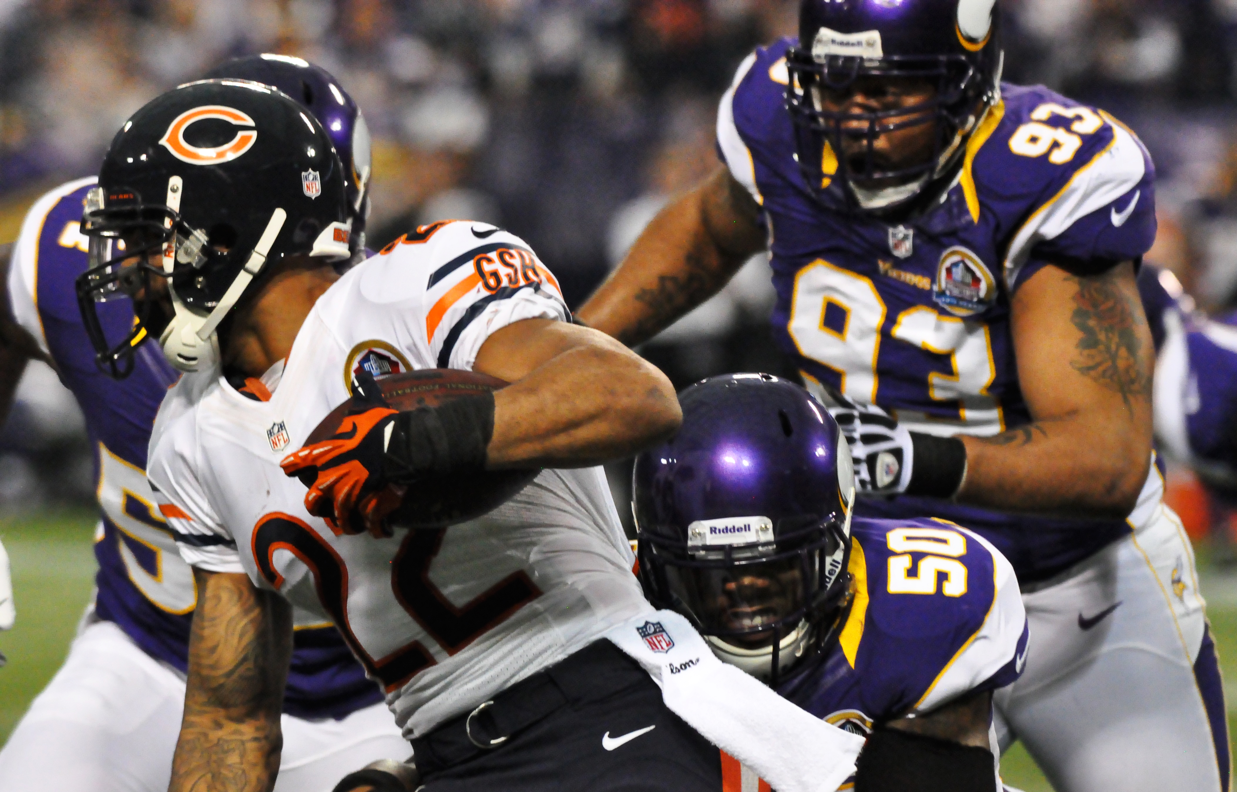 Vikings defensive tackle Kevin Williams